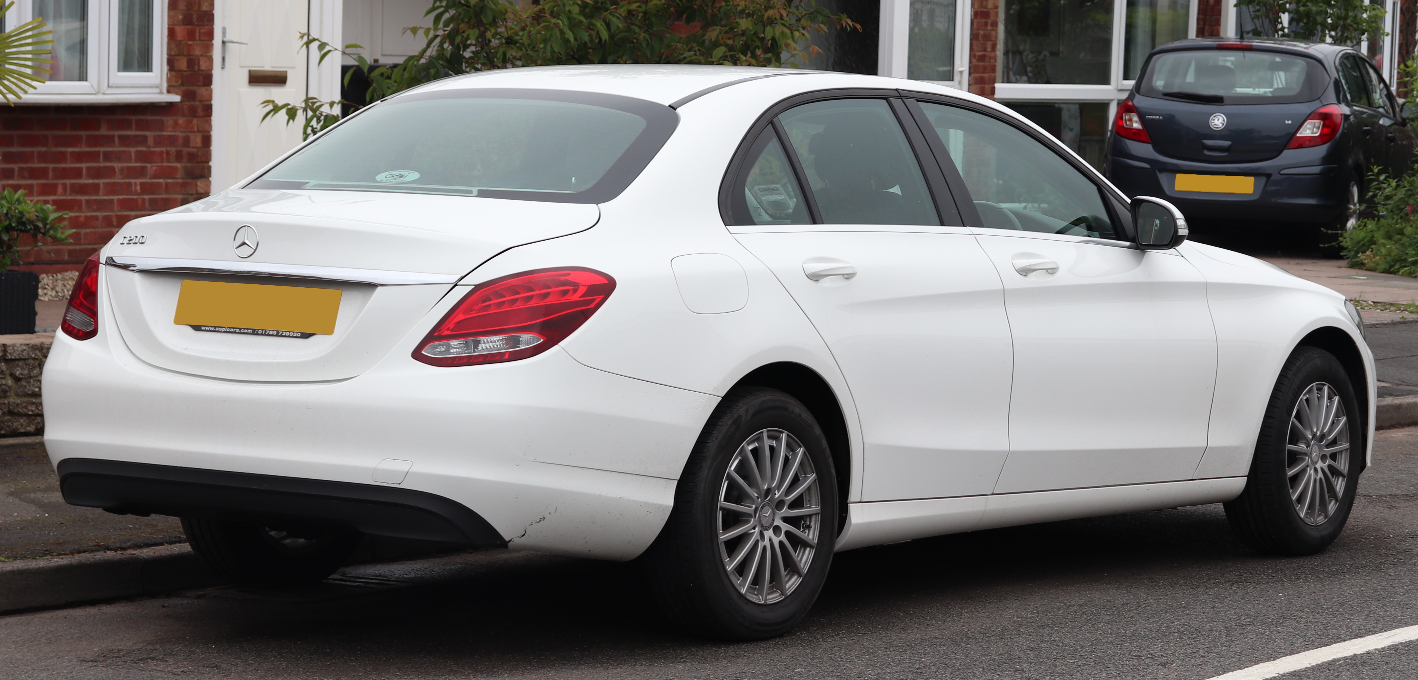 2014 Mercedes-Benz C200 SE Executive Automatic 2.0 Rear Taken in Warwick